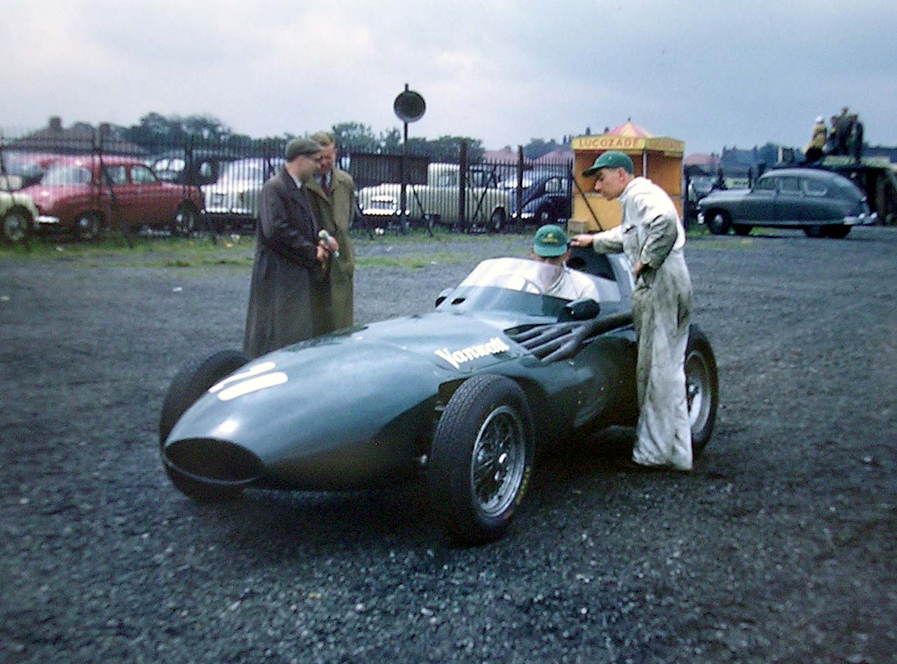 The Vanwall VW5 before the start of the 1957 British Grand Prix at Aintree. It was driven by first Tony Brooks and then Stirling Moss, and won the race - the first win for a British constructor in Formula One.